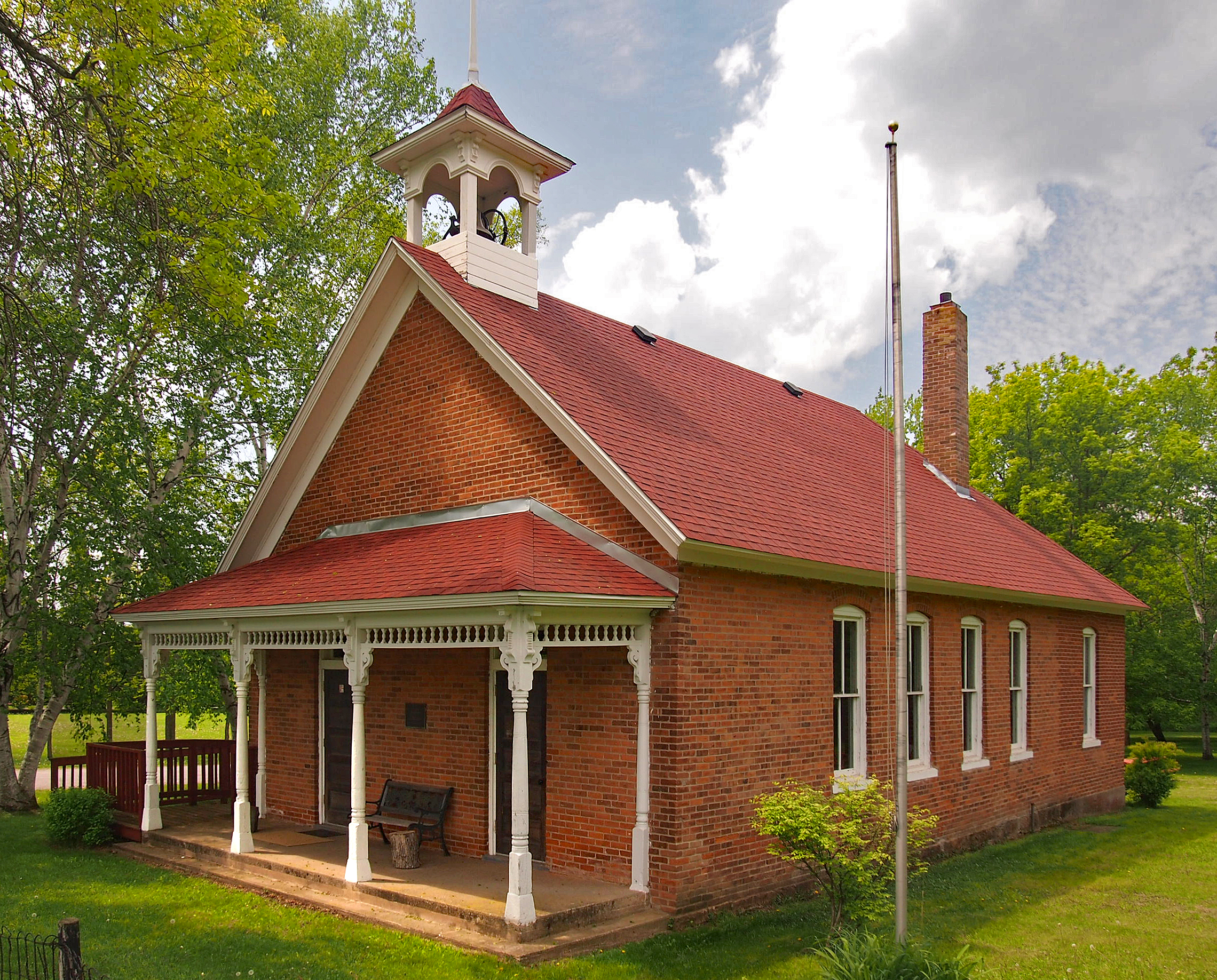 Hay Lake School, 14020 195th St, Scandia, Minnesota, USA. Viewed from the northeast.